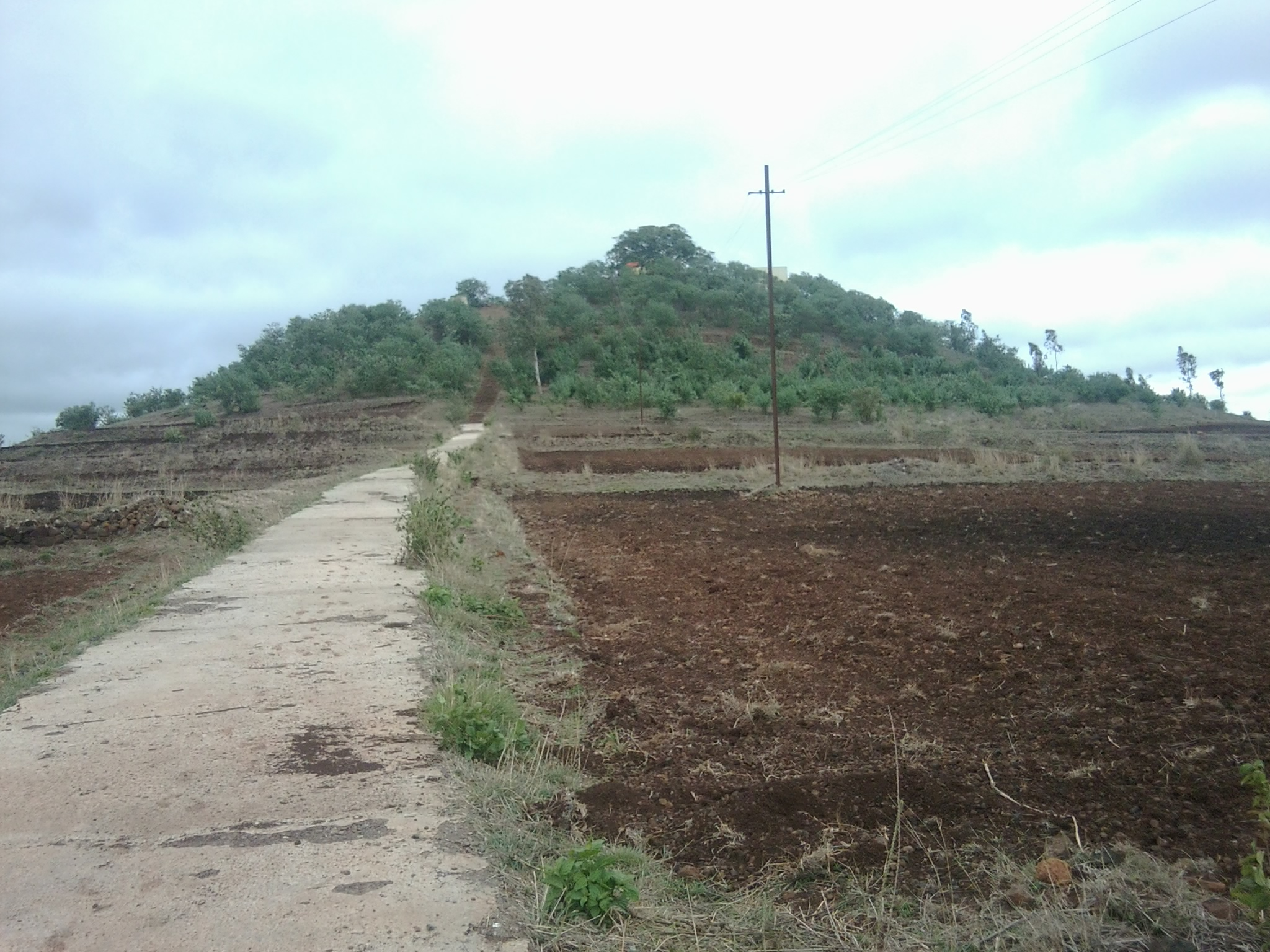 This is Guddai Temple Near Bhadgaon. It is positioned at peak of Guddai mountain and can be seen from far distance.